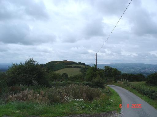 Sodom Crossroads. Taken from the crossroads at Sodom - rough pastureland in the foreground and Moel y Gaer in the distance